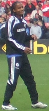 Michael Mancienne.